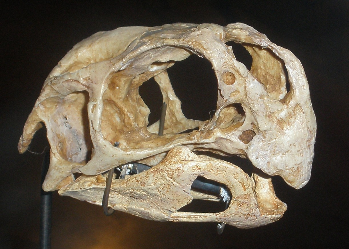 fossil of Conchoraptor, an extinct theropod